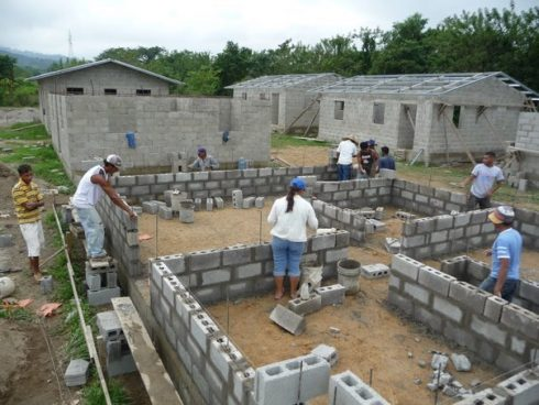 An image of the Villa Soleada construction site in El Progreso, Honduras